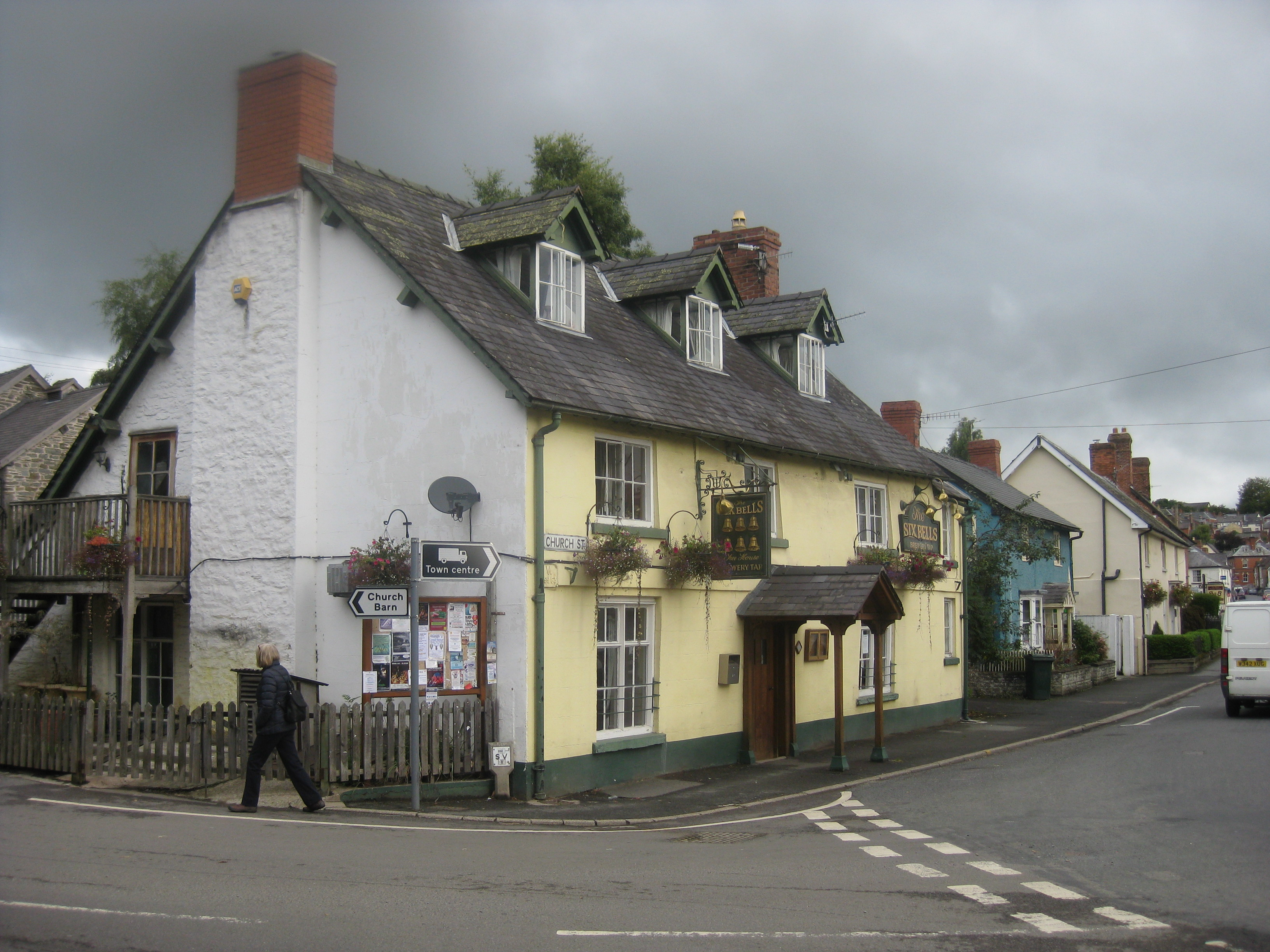 The Six Bells home-brew pub in Bishops Castle, Shropshire, England. September 2013